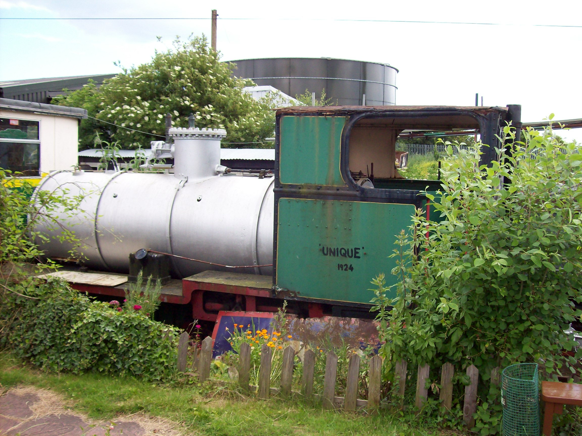 Locomotive Unique at Kemsley Down, SKLR